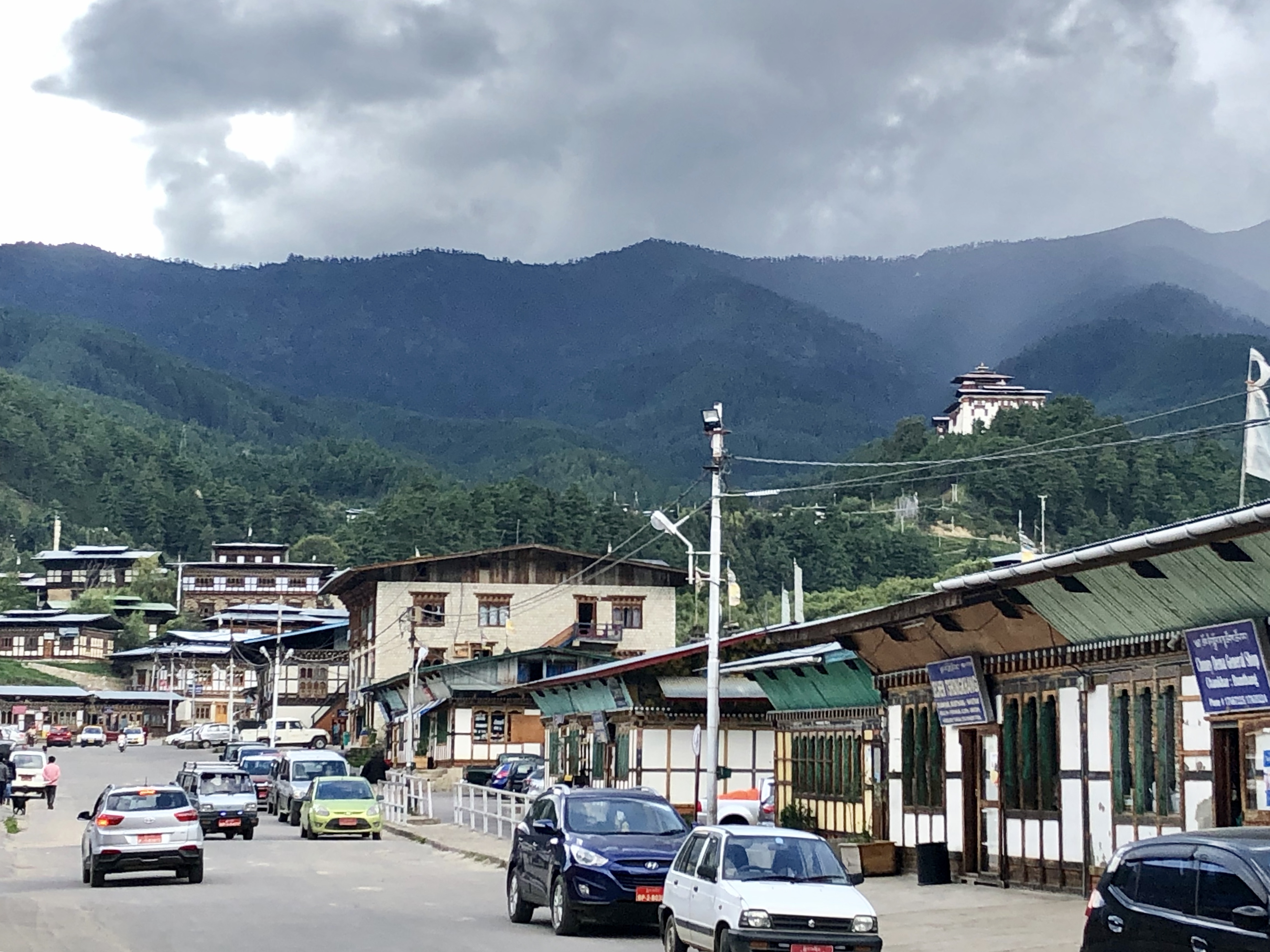 Main Street in Jakar, Buthan with Jakr Dzong on the hill